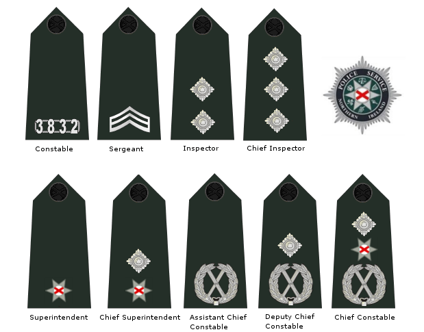 police service of northern ireland ranks